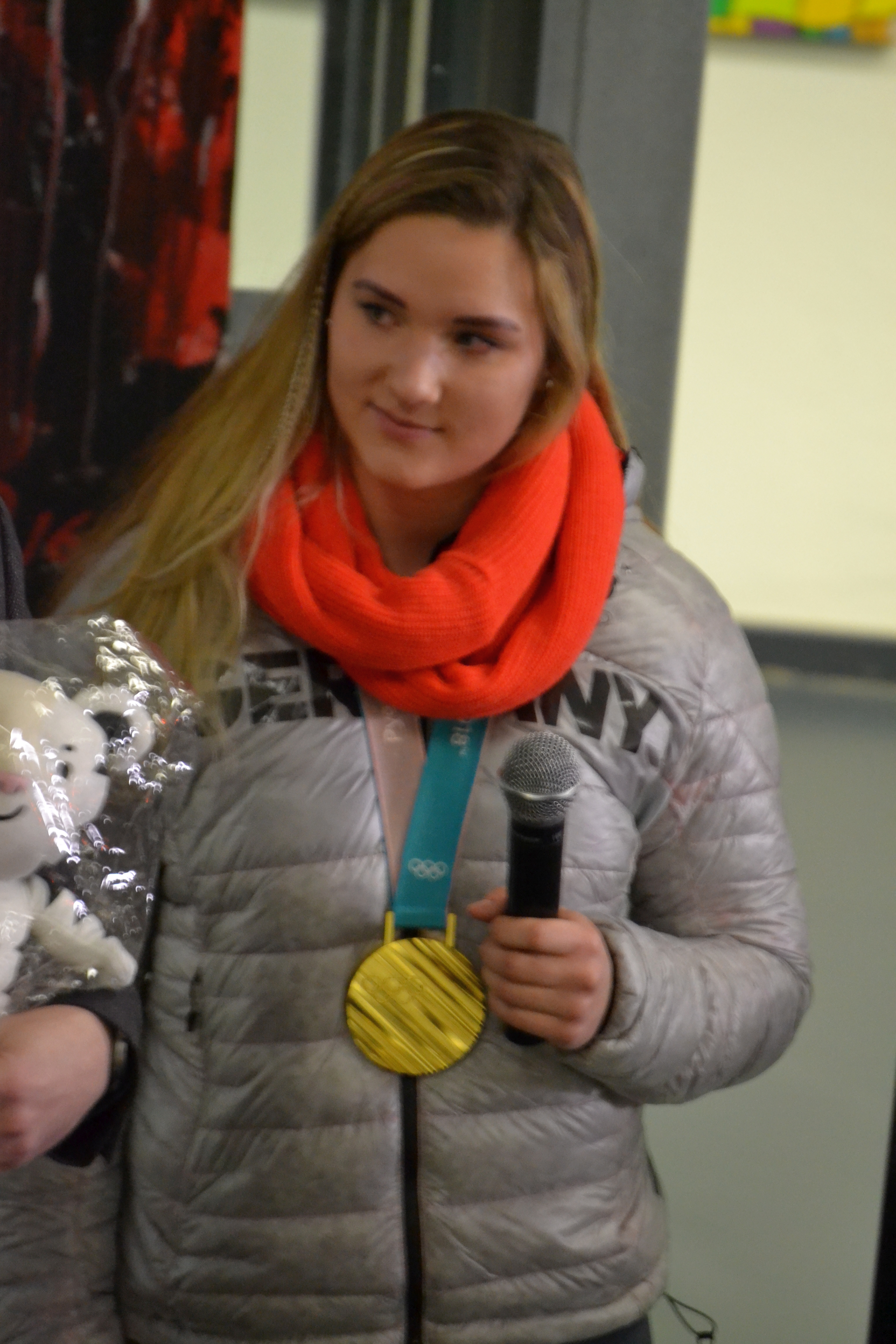 Reception of Olympic champion Lisa Buckwitz at the Rathaus Schöneiche on 7 March 2018